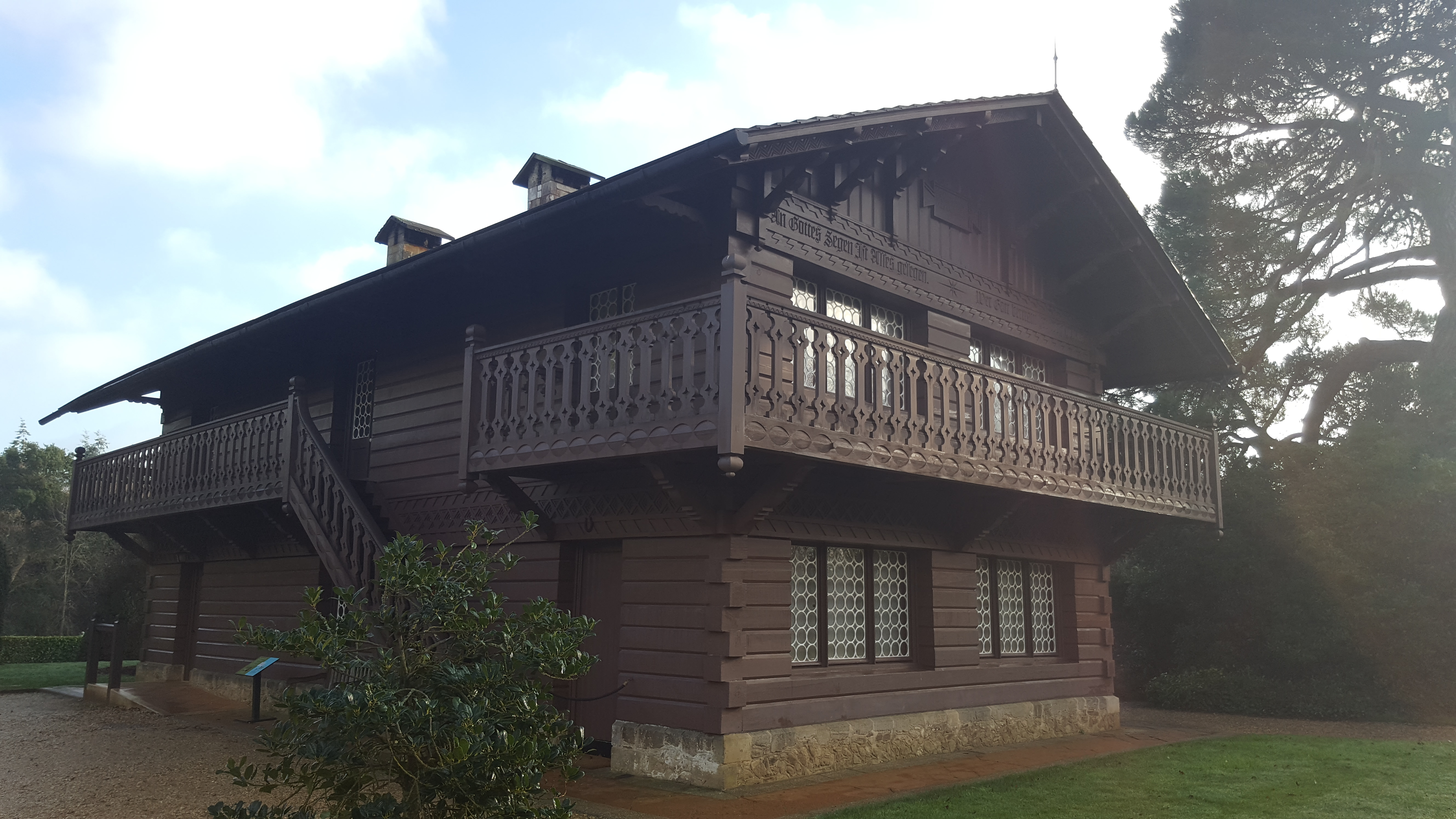 The Swiss Cottage in the grounds of Osborne House, Isle of Wight.